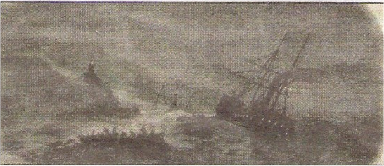 This etching was published in the March 1853 edition of The Nation newspaper in its report of the loss of the paddle steamer Queen Victoria which sank 15 Feb 1853 with the loss of 83 lives